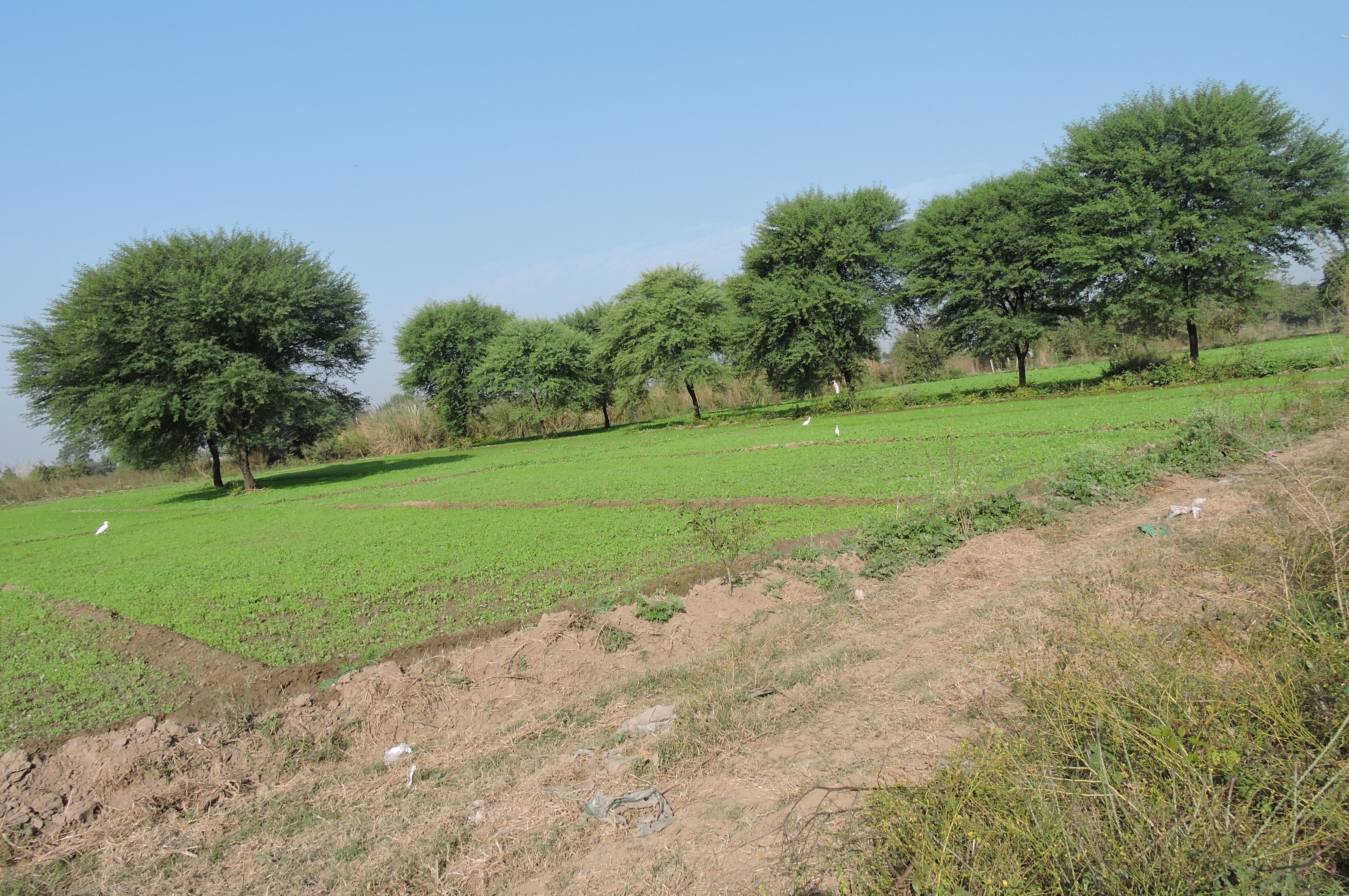 Vachellia nilotica, Village Behlolpur, disrtrict Mohali , Punjab, India